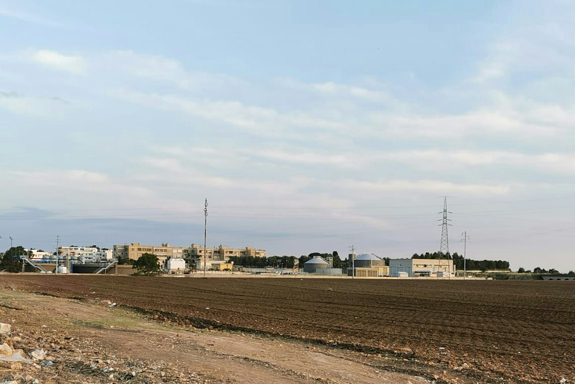 Wastewater treatment plant of Acquedotto Pugliese (Apulian Aqueduct) in Francavilla Fontana.